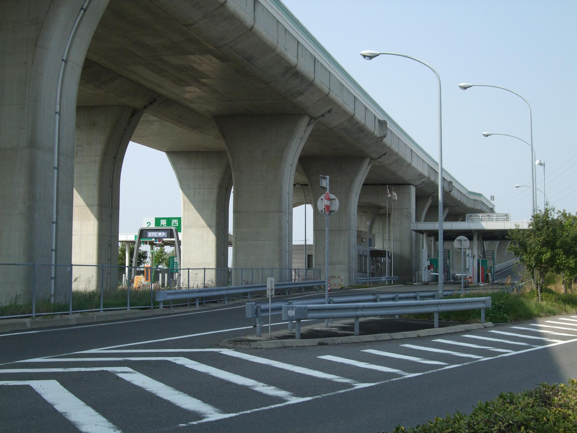 Bisai Interchange on the Tokai-Hokuriku Expressway